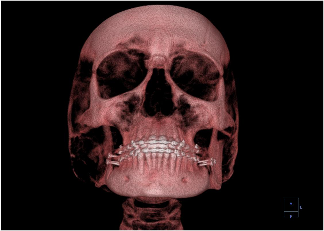 Computer tomography Skull